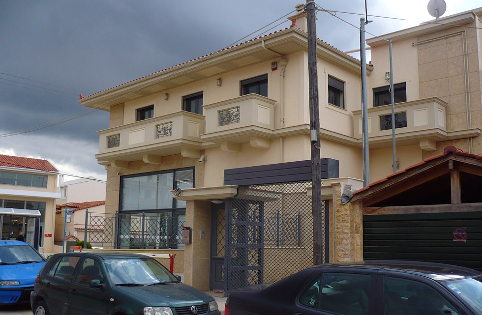 Architecture sample of Patima at Irakleitou Avenue - Halandri